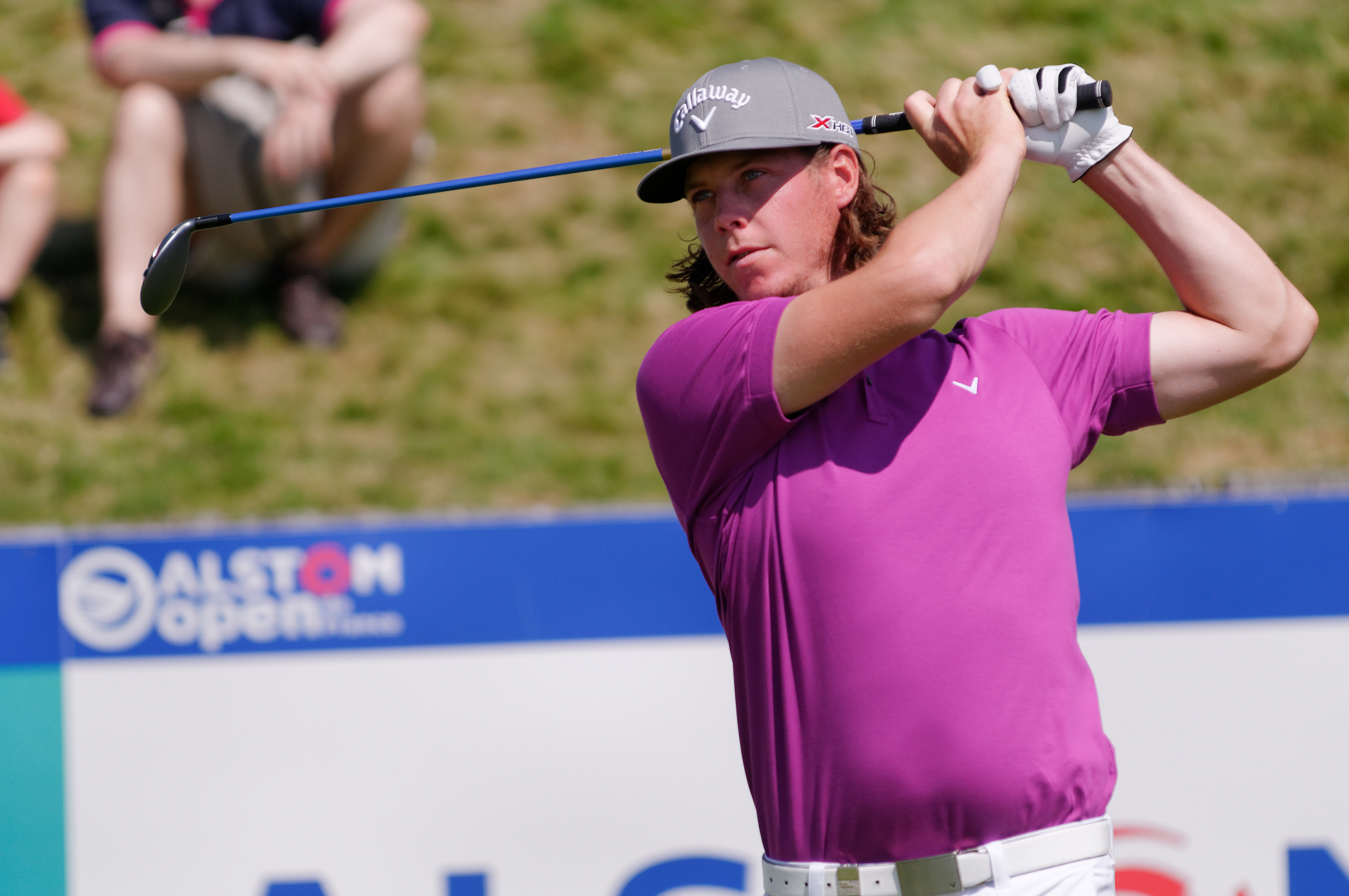 Sweden's Kristoffer Broberg tees off on the 1st hole during round 3 of the French Golf Open at the Golf National in Saint Quentin en Yvelines, Saturday July 6th 2013.